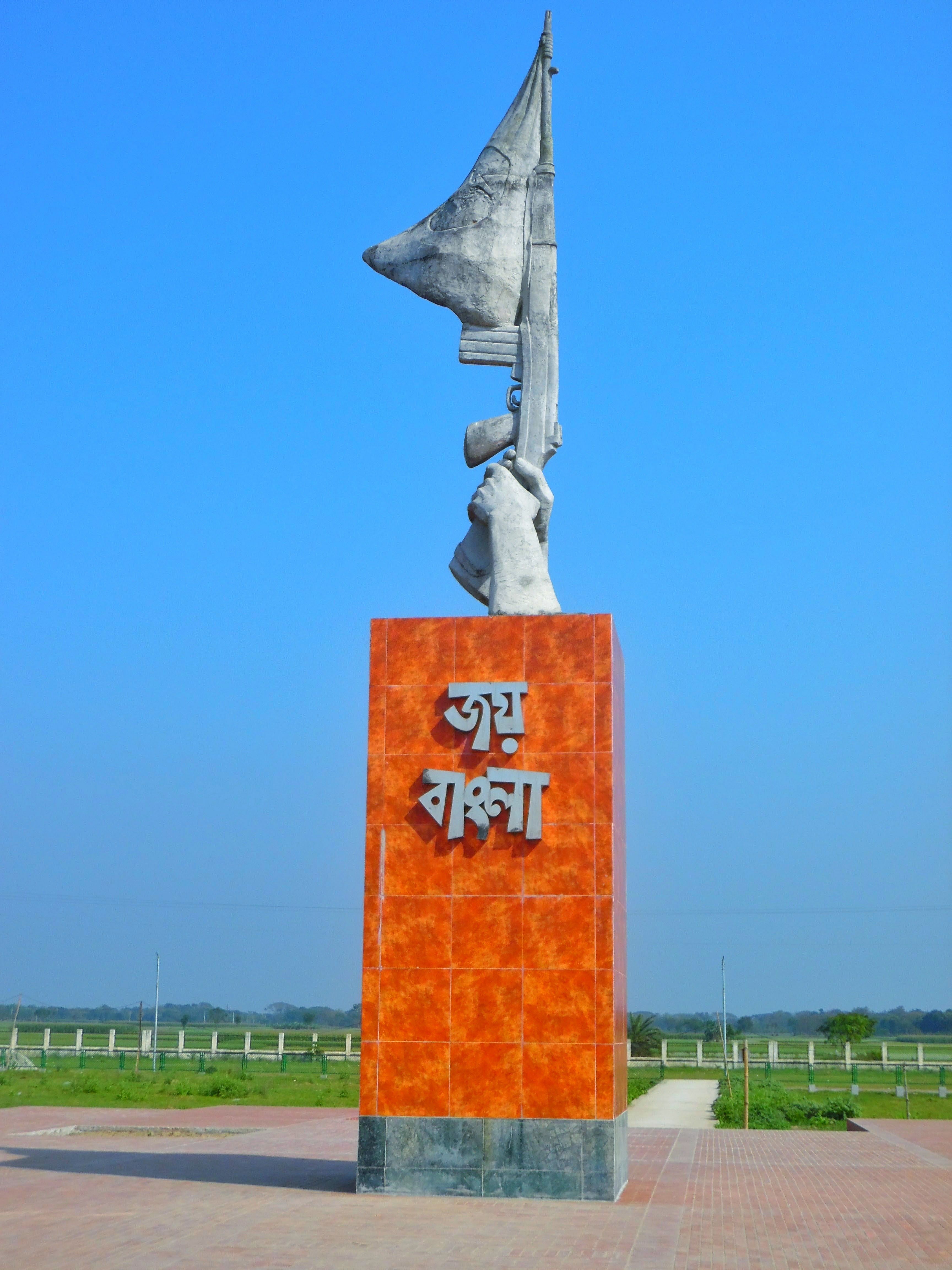 The sculpture "Joy Bangla " situated in Mujibnagar Muktijuddho Smriti Complex. "Joy Bangla" means victory of Bangla. It was the slogan of the freedom fighters during the liberation war of Bangladesh in 1971. (Photo of 2016.)